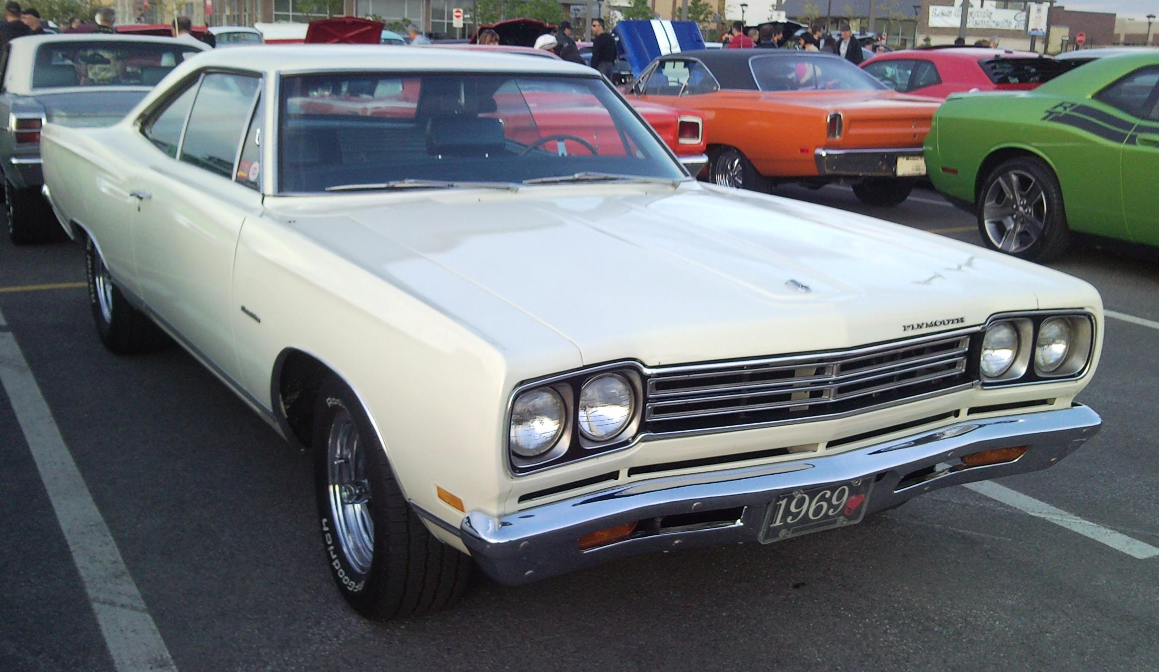 1969 Plymouth Road Runner photographed in Laval, Quebec, Canada at Les chauds vendredis.